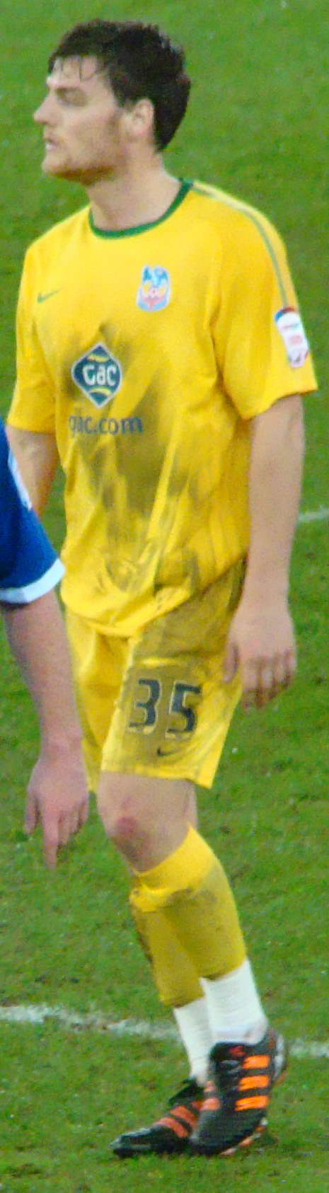 Chris Martin playing for Crystal Palace in Football League Cup semi-final against Cardiff City.